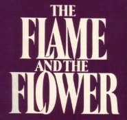 The Flame and the Flower title.